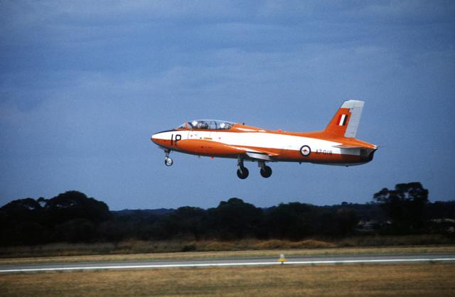 Sourced from: Details: ID: DFST8307254 Service Depicted: Other Service A left side view of a Royal Australian Air Force Macchi jet trainer aircraft taking off during Exercise Sandgroper '82. Date Shot: 10 Nov 1982